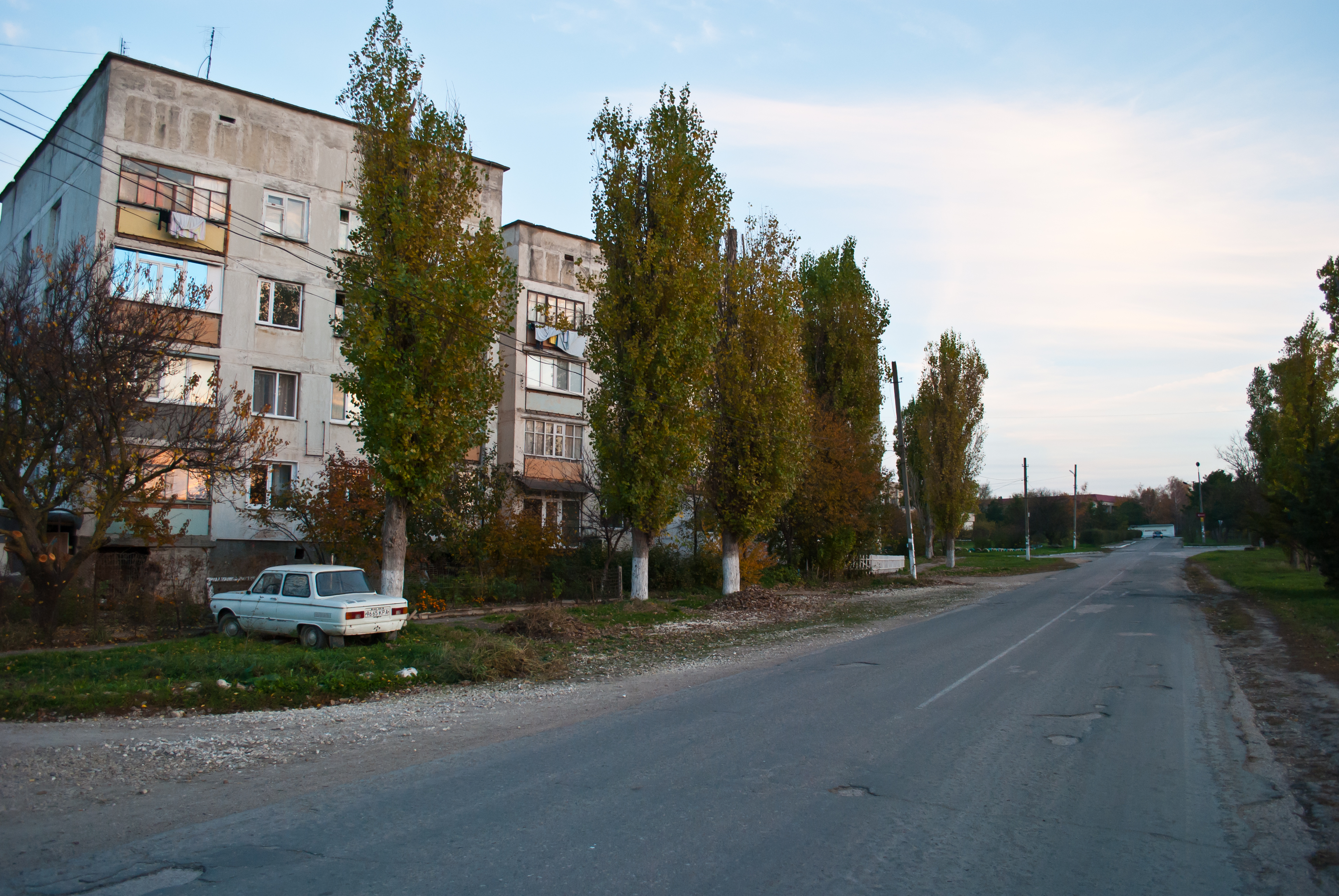 The central street of the village Trudovoye (Simferopol Raion, Crimea).